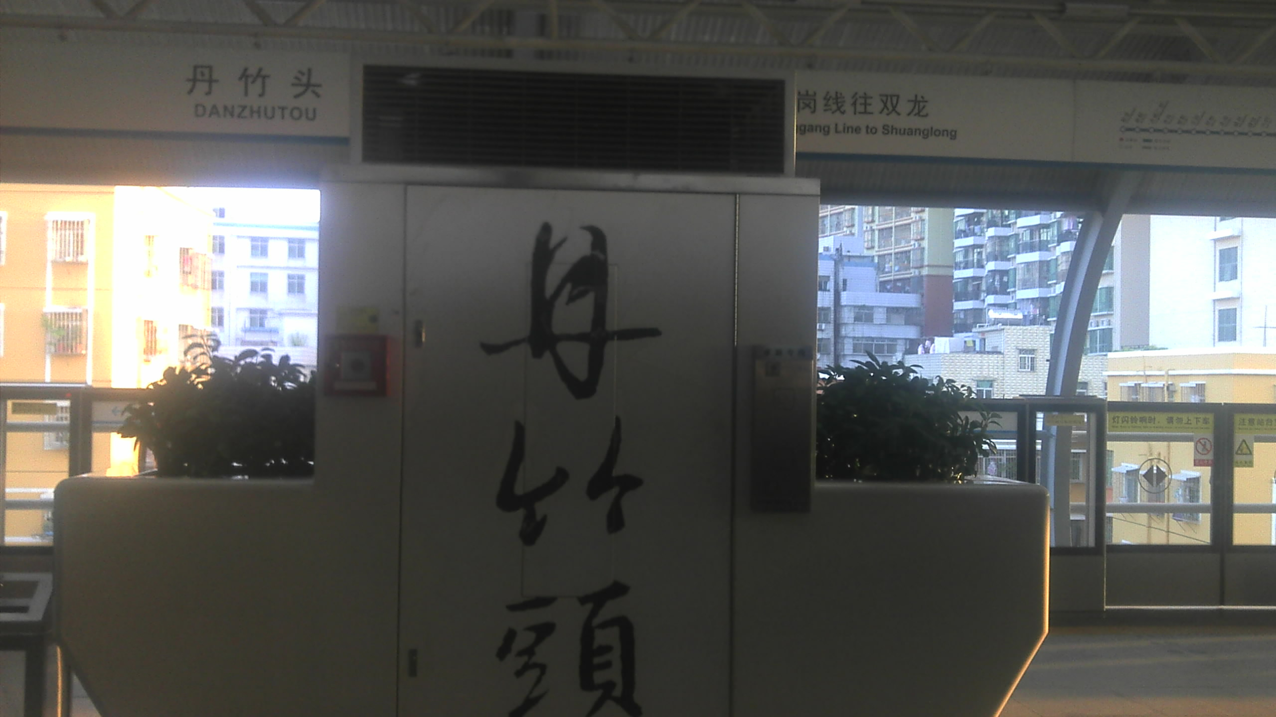 This photo was taken as Oct 16, 2011.